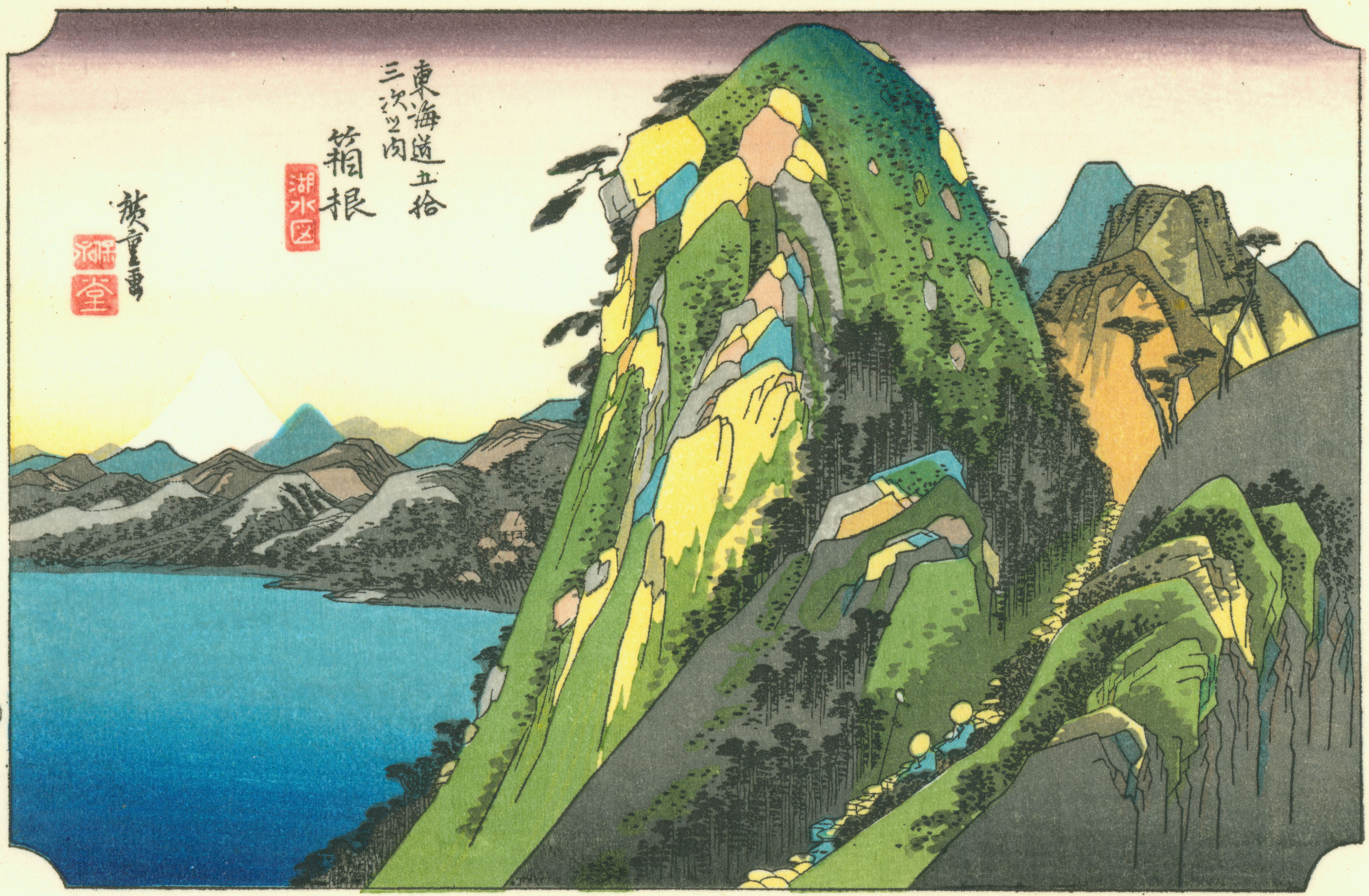 wood-block print, reproduction from a miniature edition by Takamizawa, Japan Title: Hakone